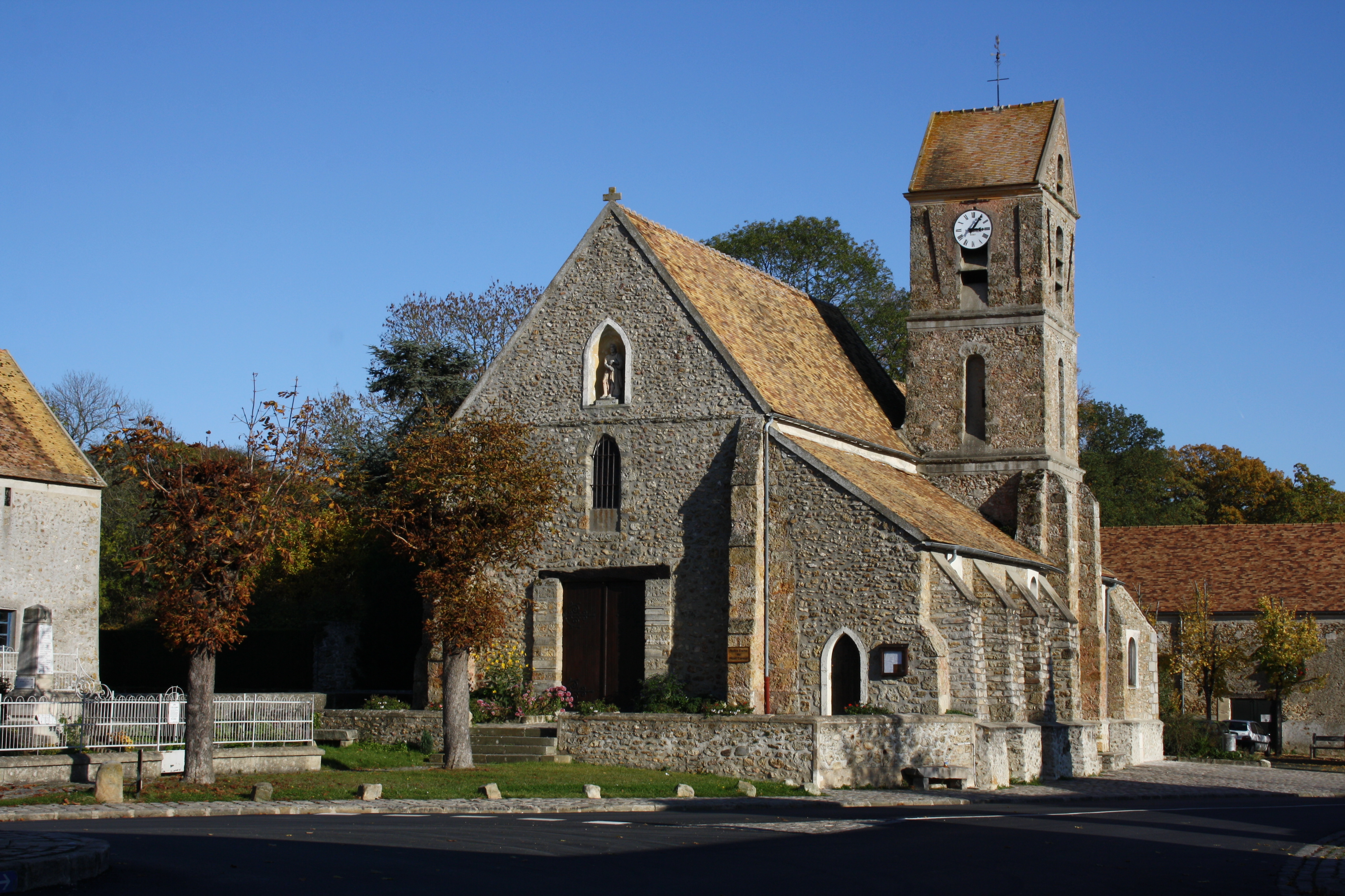 The Notre Dame du Mont Carmel church of Janvry, France.